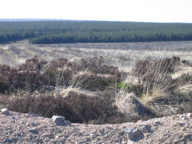 Forestry Cleared forestry in the foreground is part of the habitat restoration on the RSPB Forsinard reserve.